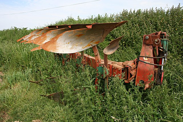 Plough on the edge of the field.